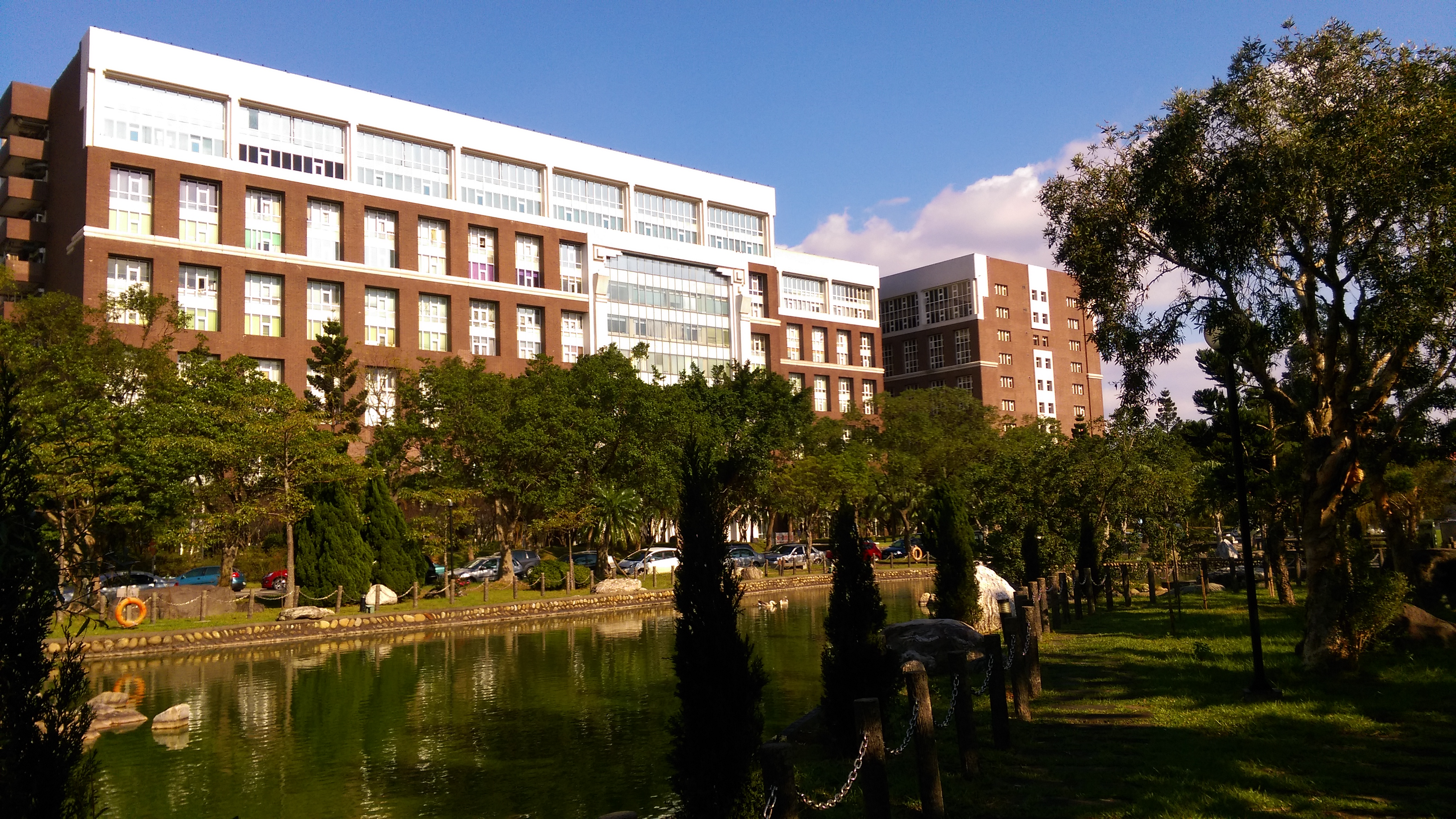 first medical building in CGU